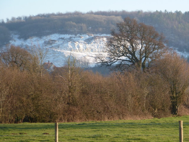 Shillingstone: chalk quarry on Shillingstone Hill